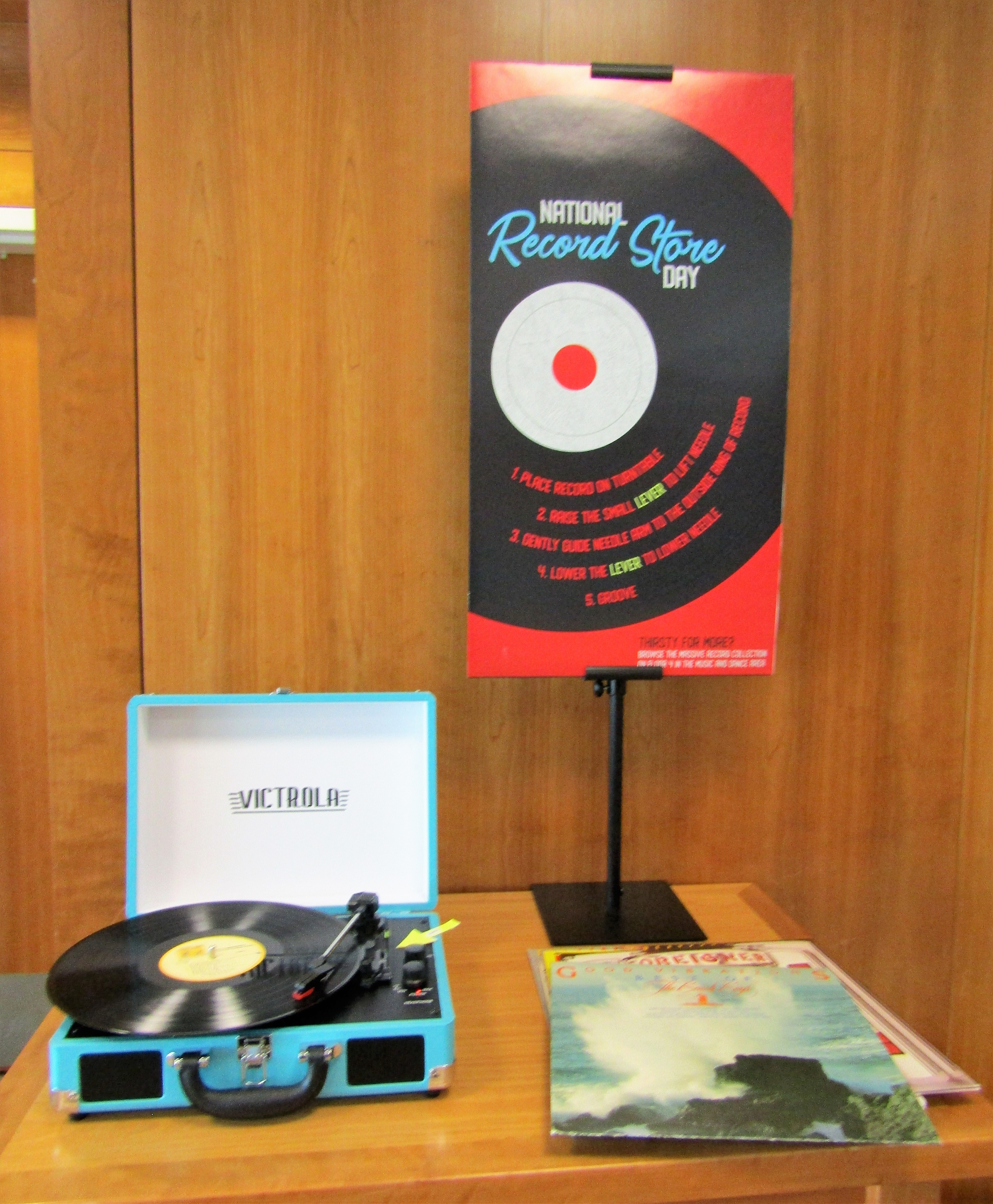 Record player and records in the Harold B. Lee Library for National Record Store Day.